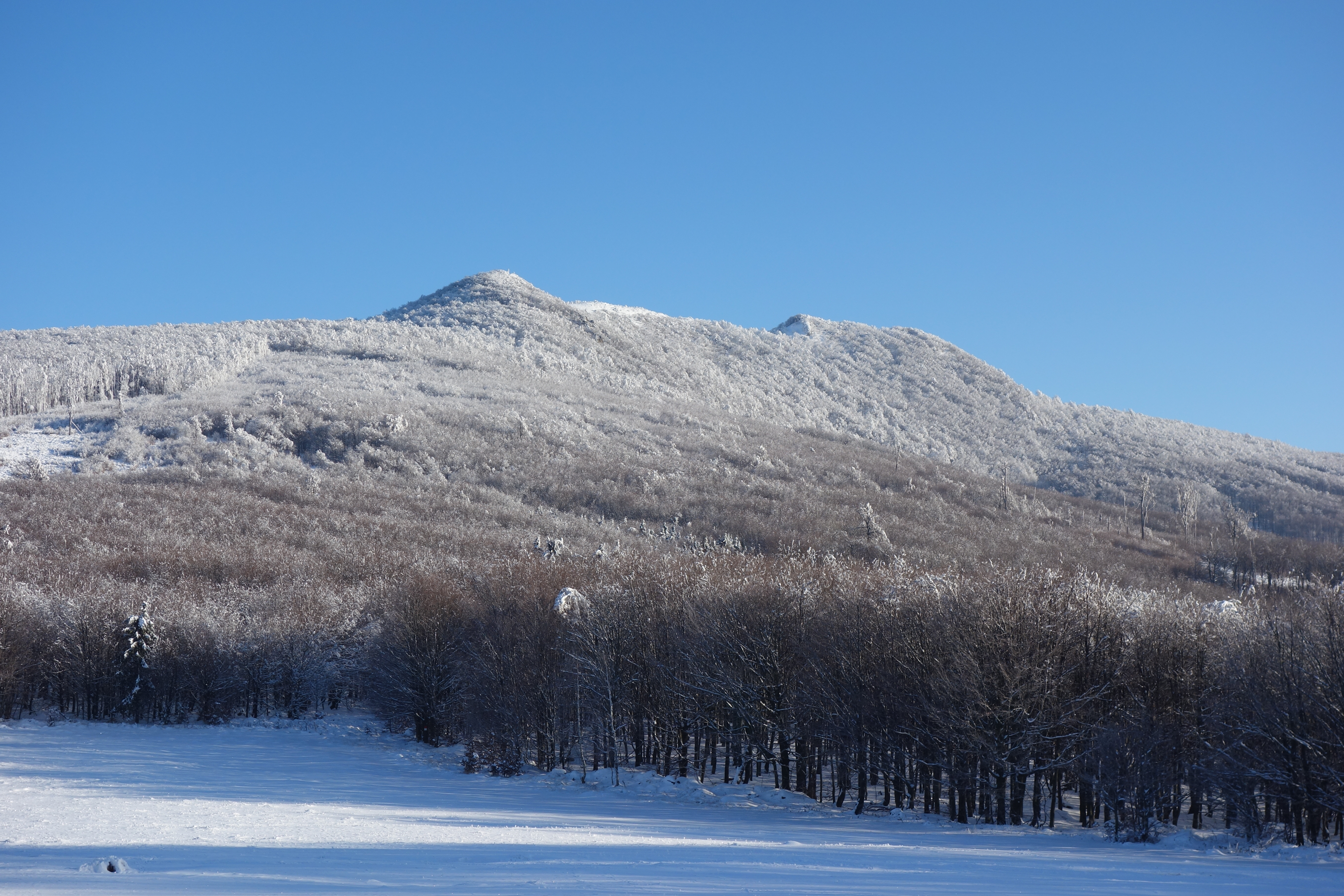 View of Vihorlat from the southwest in the winter This is a photography of Natura 2000 protected area with ID SKUEV0025